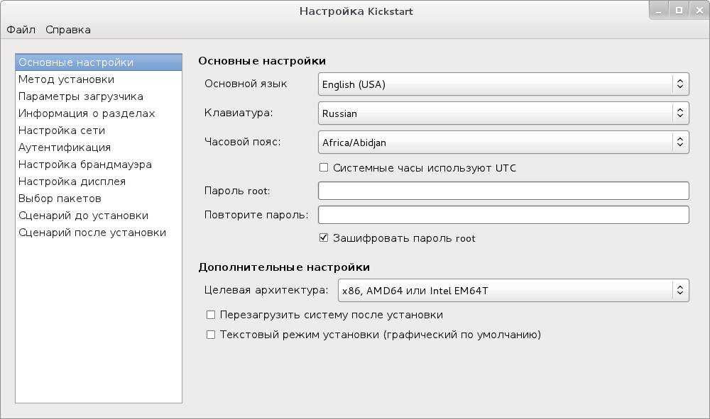 Screenshot of system-config-kickstart (fedora) with russian GUI